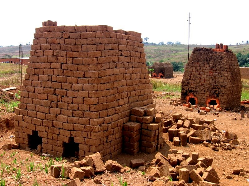 Oven to make clay block bricks in Angola